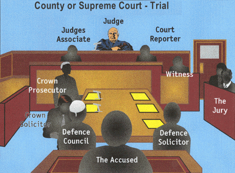 Trial